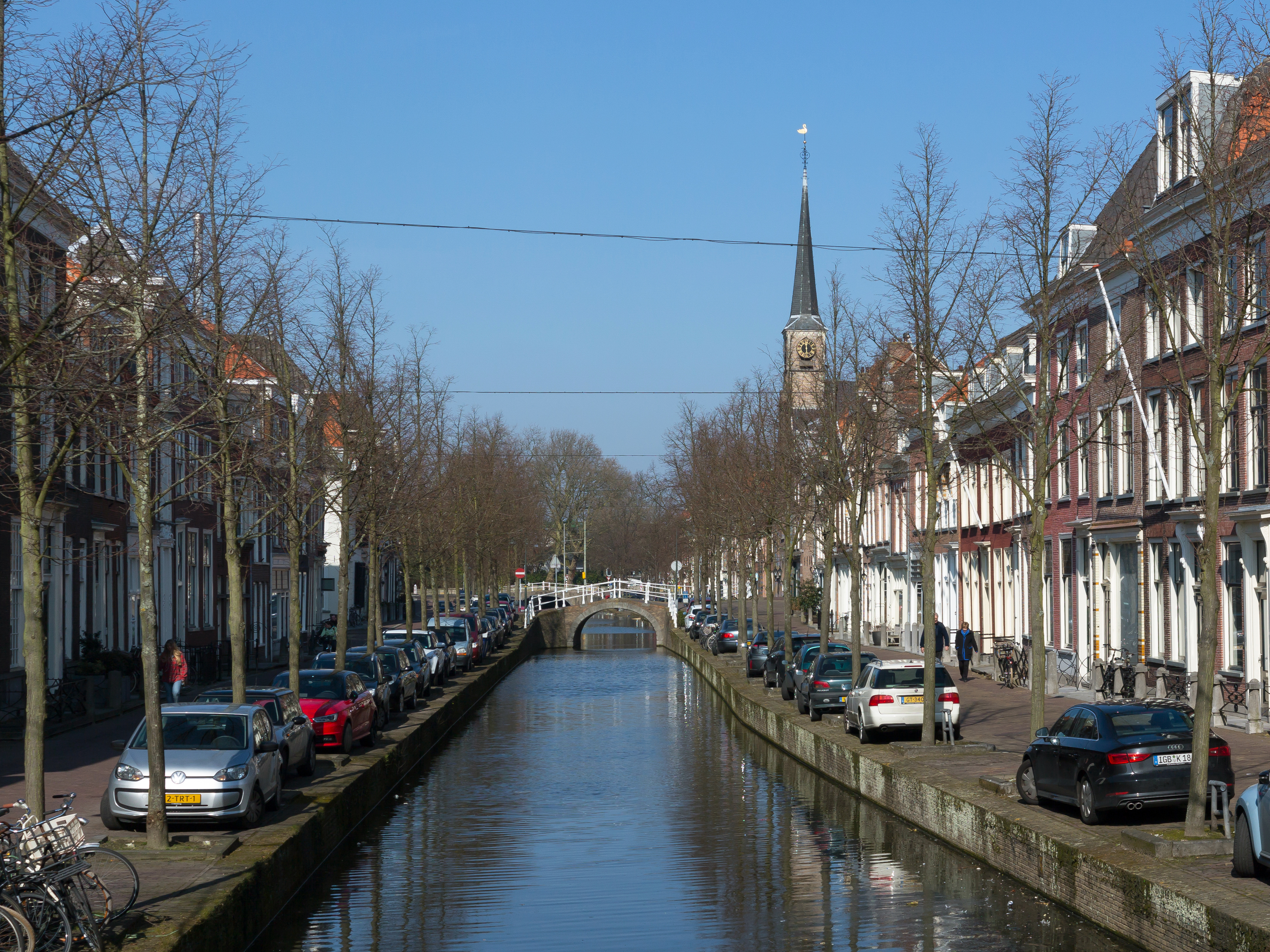 Delft, street view de Oude Delft from a canal bridge (de Bagijnhofbrug)